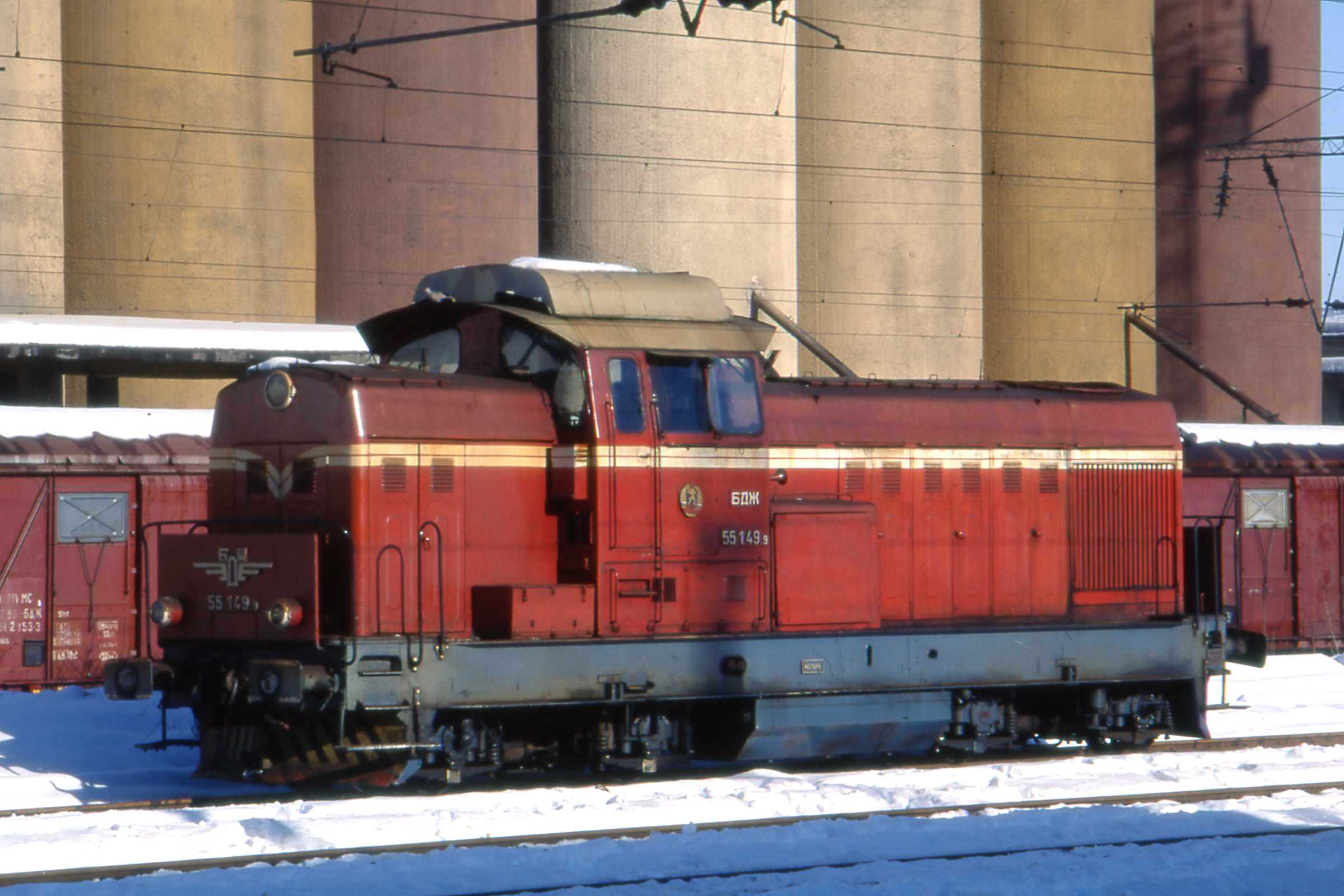 A Bulgarian state railways 55-149 diesel locomotive at Vratsa Station in January 1995.